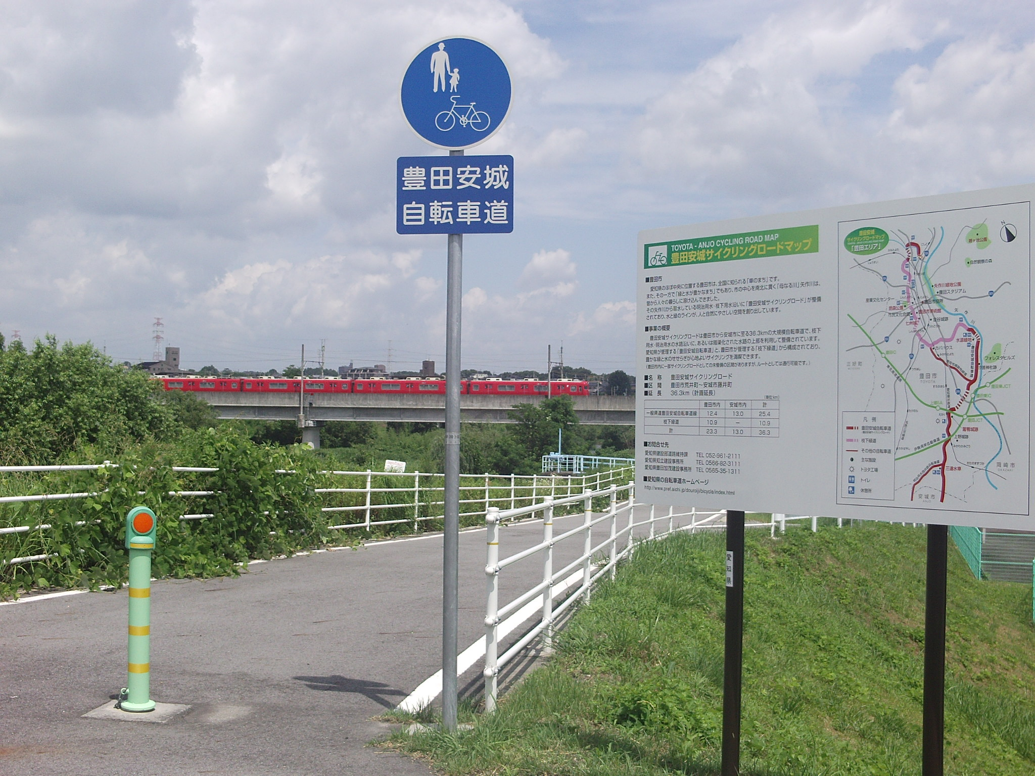 The Aichi Prefectural Road Route 288 in Araicho, Toyota City